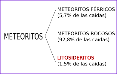 Meteorite classification